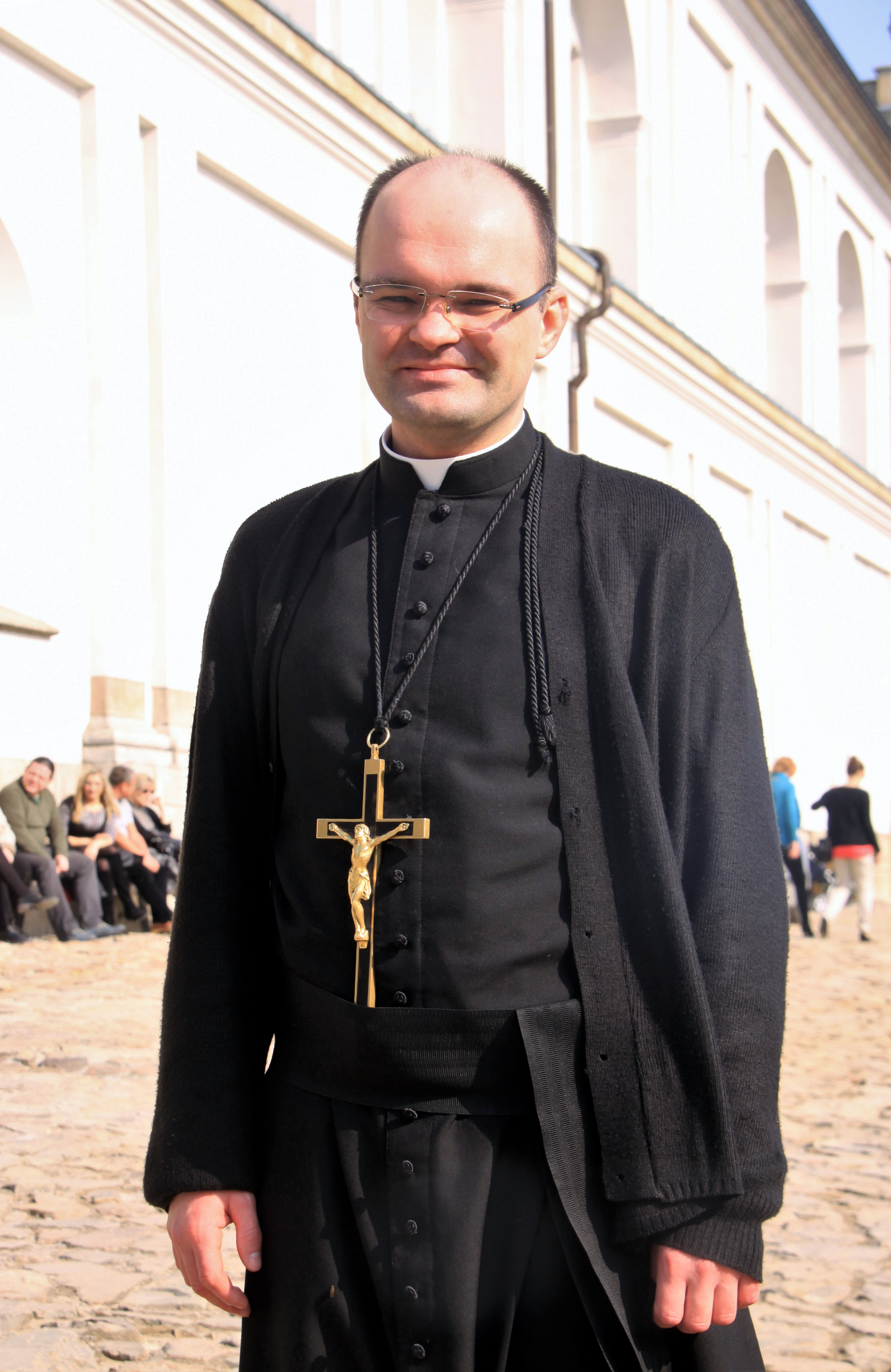 Missionary Oblate of Mary Immaculate from St. Cross monastery, Poland.